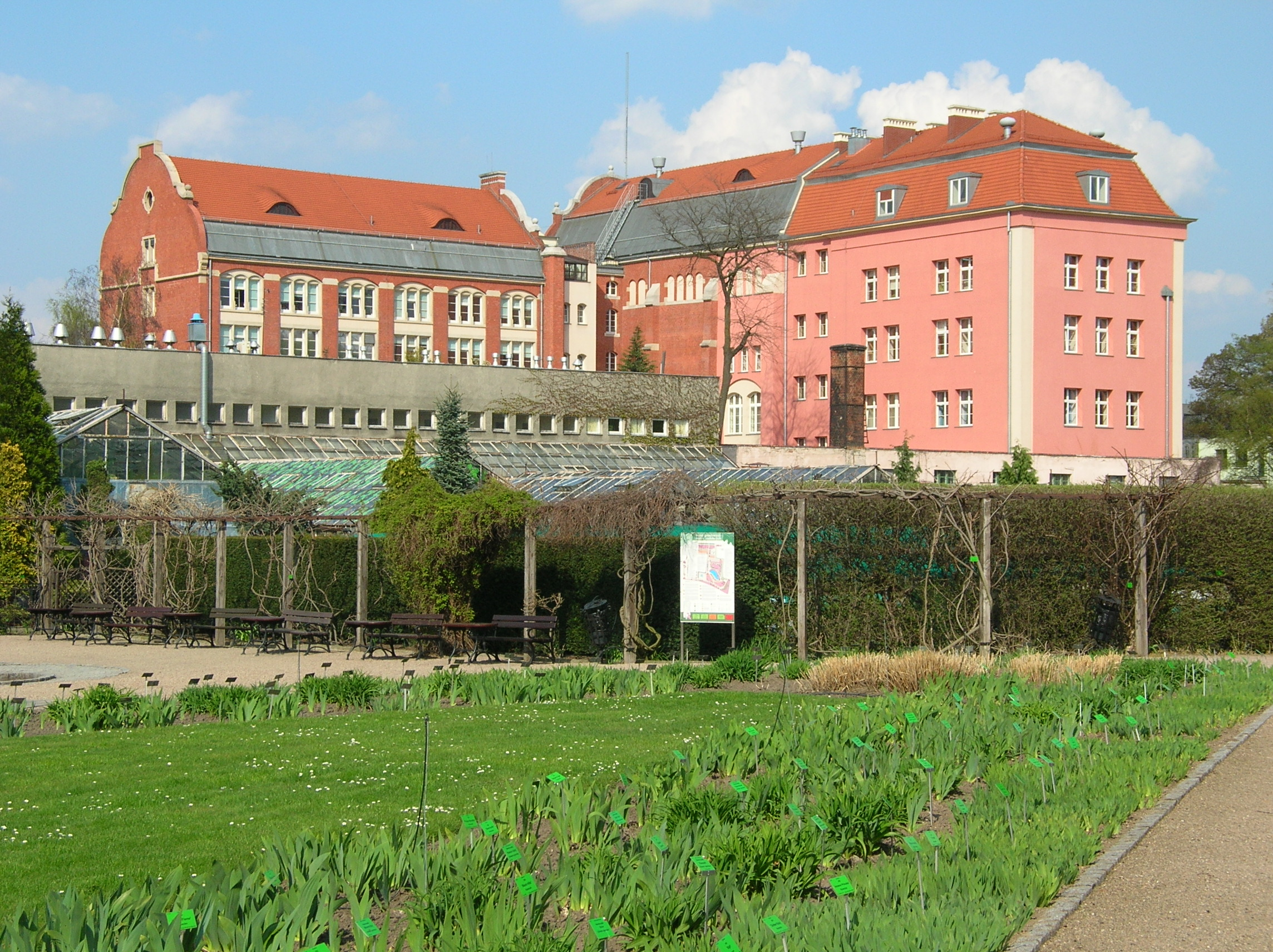 Zoological Institute of Wrocław University